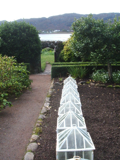 Victorian cloches in walled garden Inverewe Gardens